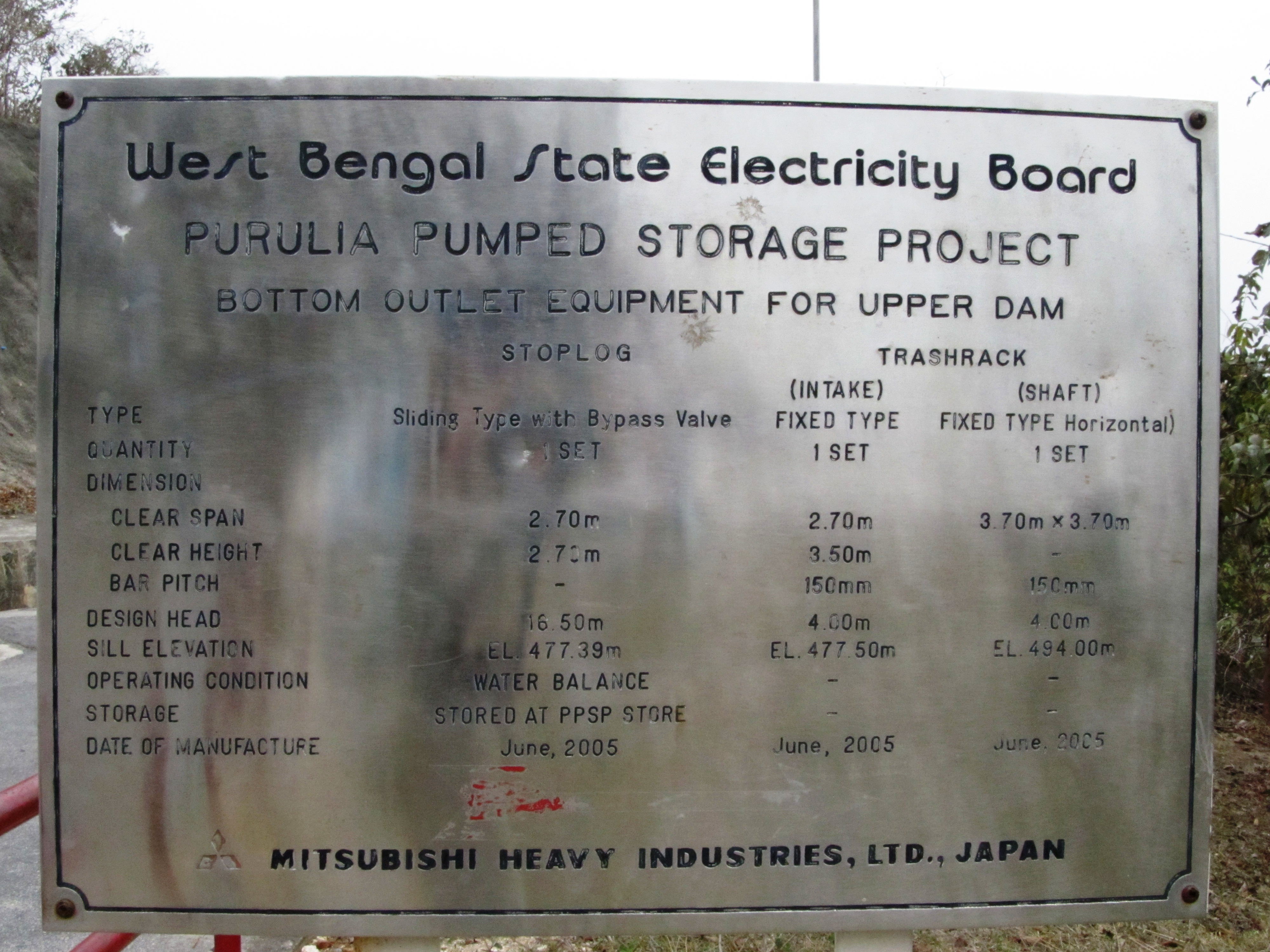 Purulia Pumped storage project ato Ayodhya hills